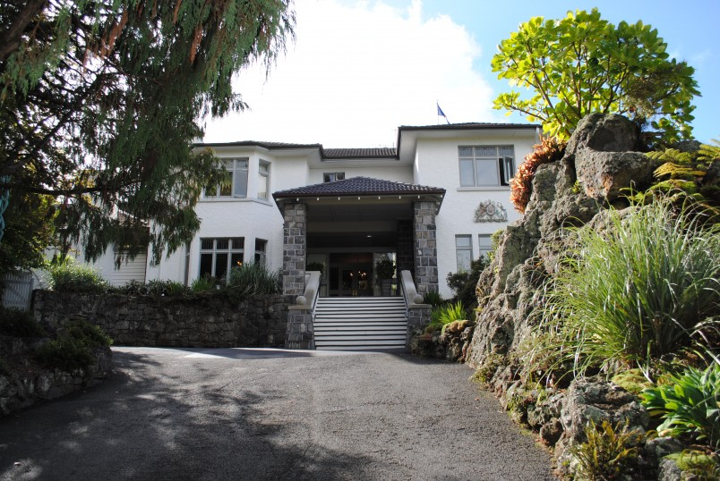 Main entrance of Government House in Auckland